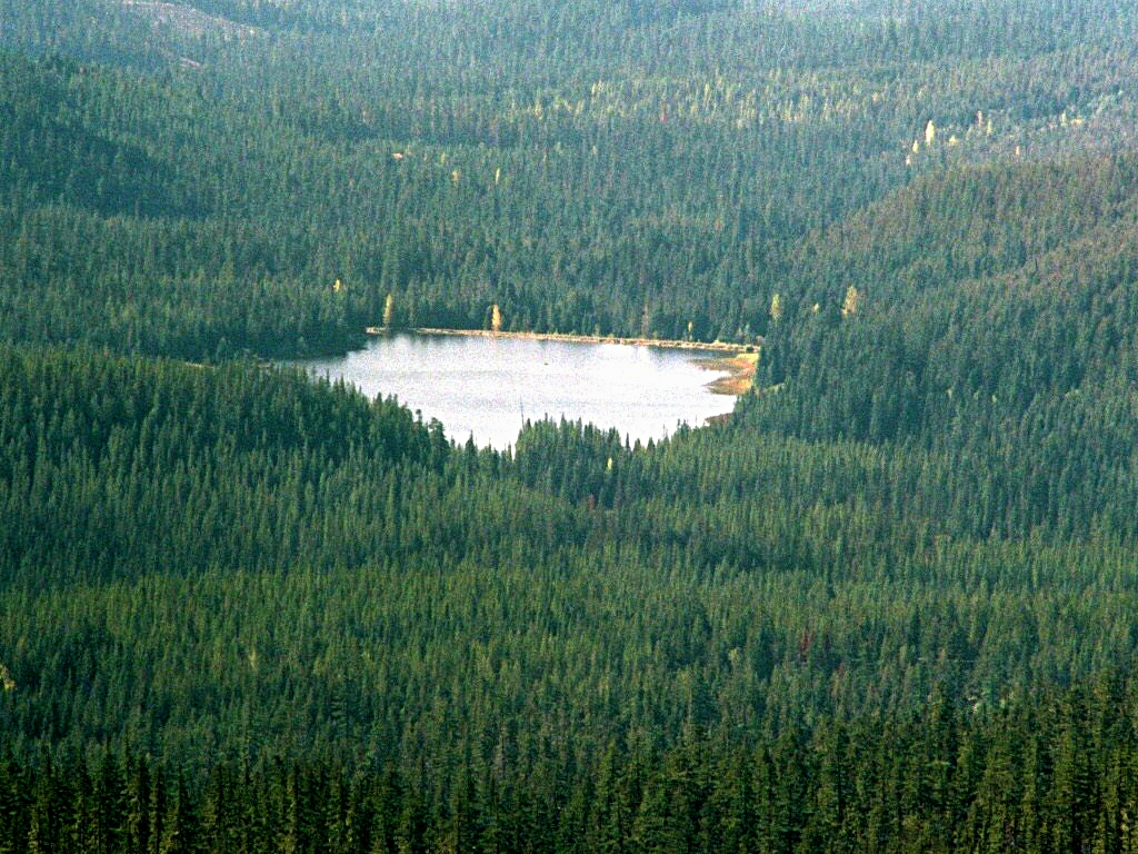 Trillium Lake, Oregon, USA, as seen from the south slope of Mt. Hood at about the 6,000-foot level.